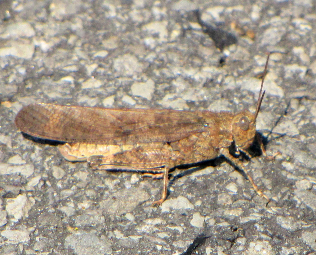 Carolina Grasshopper (Dissosteira carolina), Ottawa, Ontario, Canada